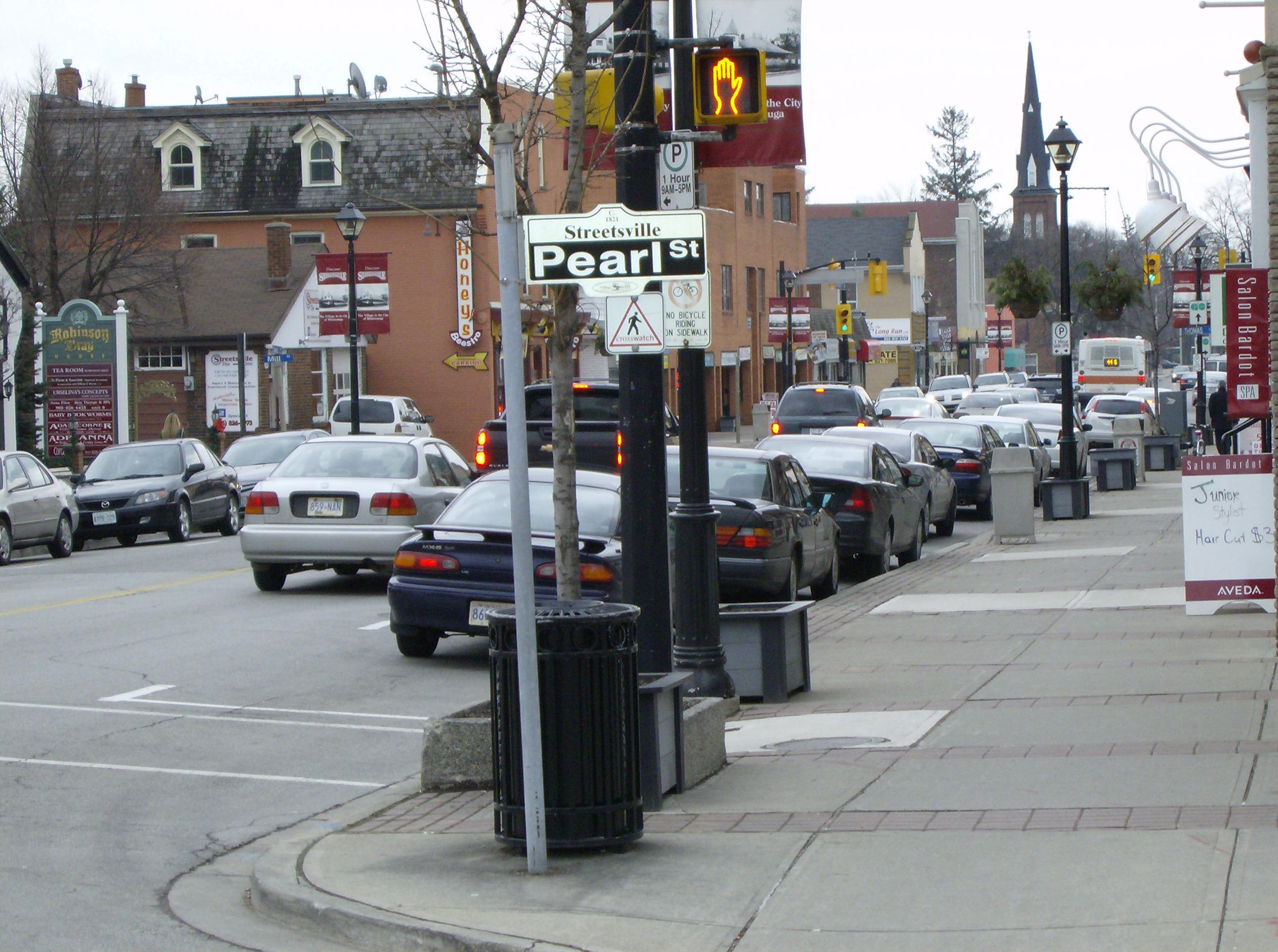 my photo